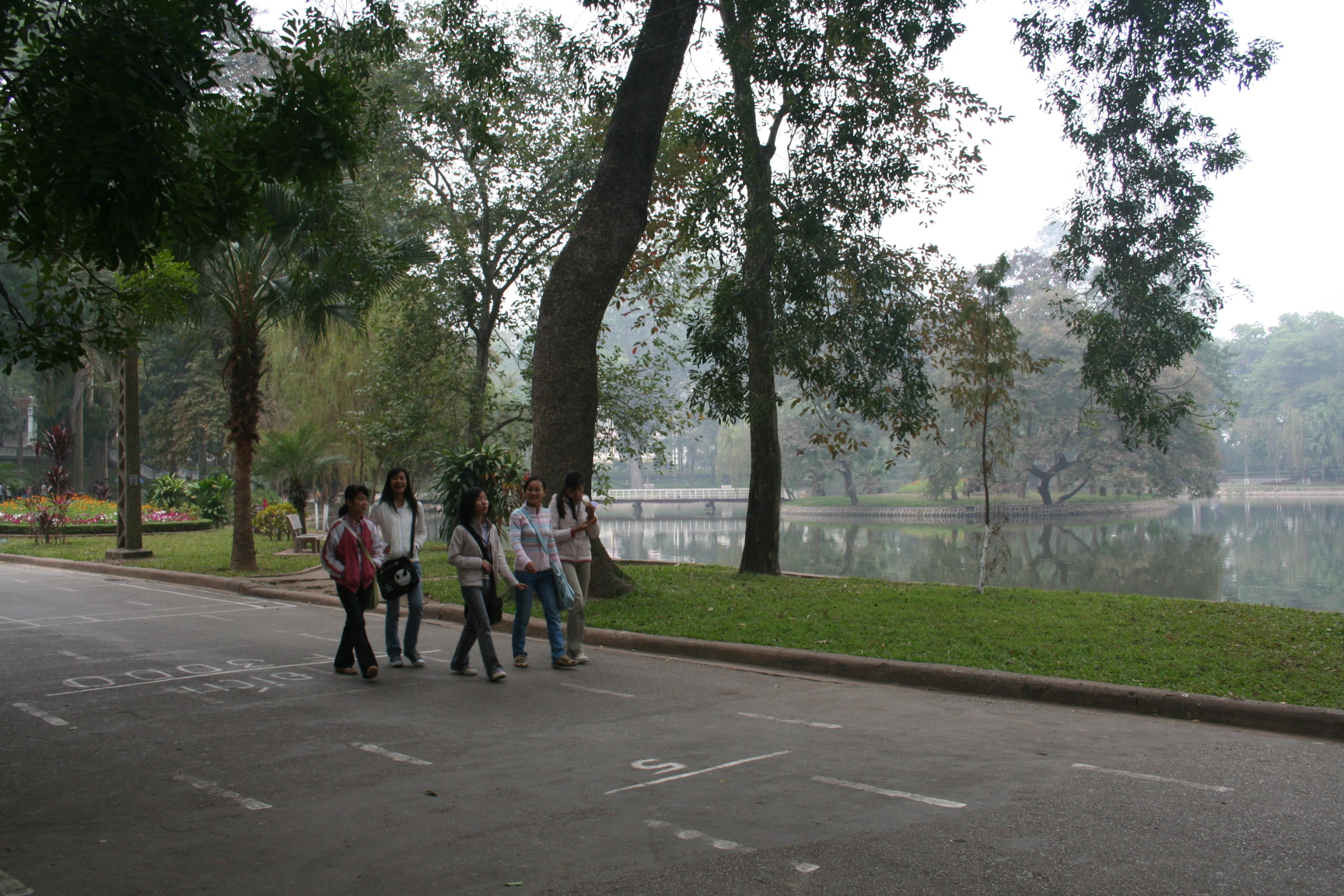 Ha Noi Botanic Garden.